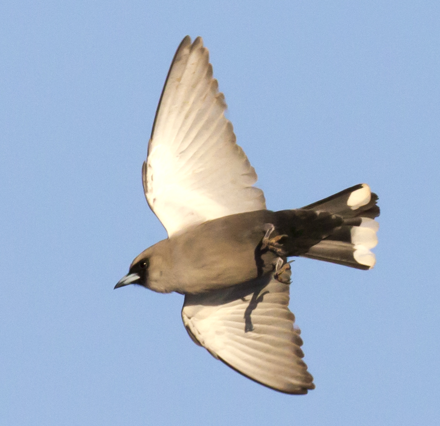 black faced woodswallows group as the sun sets